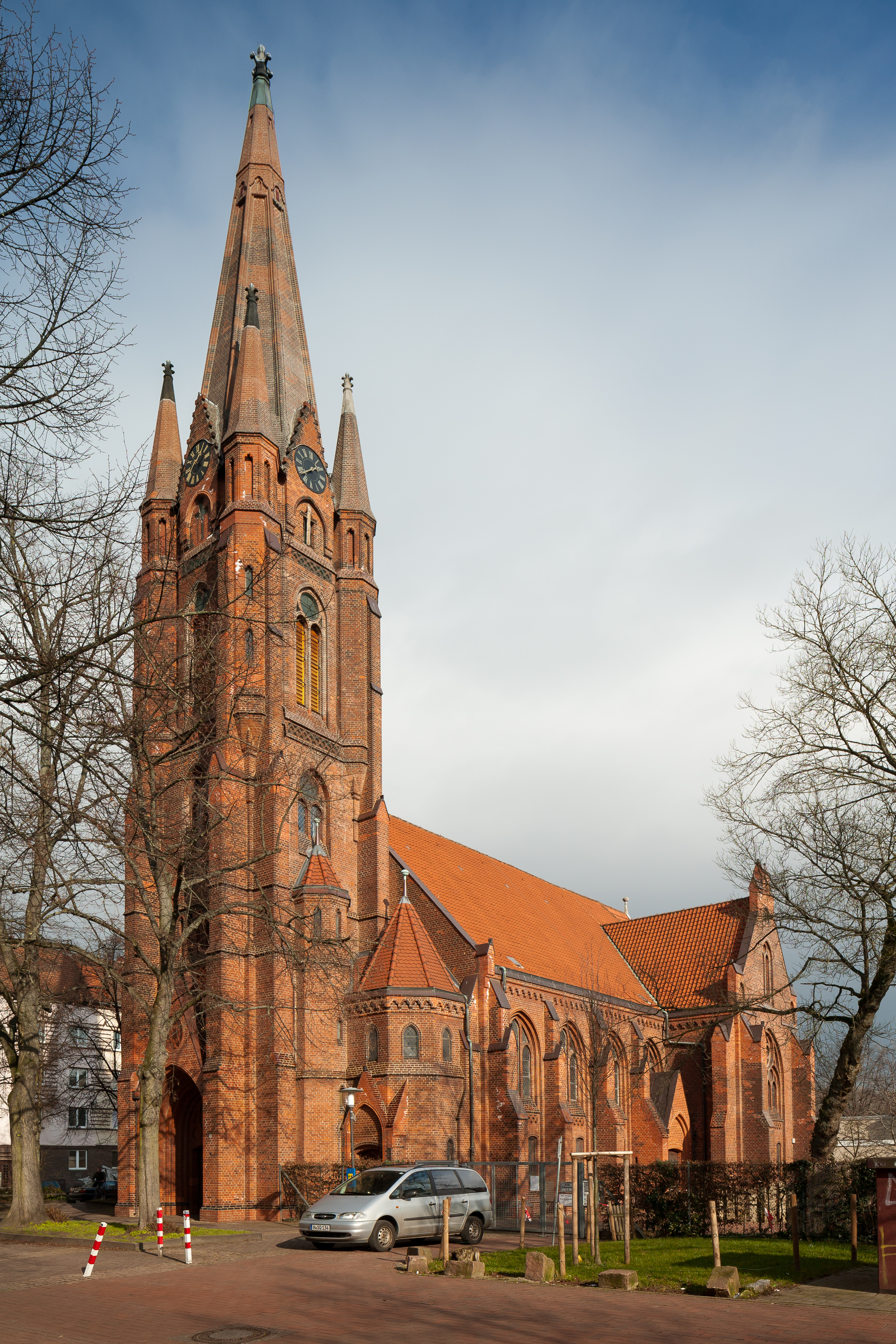 Erloeserkirche church located at Allerweg in Linden-Sued district of Hanover, Germany.